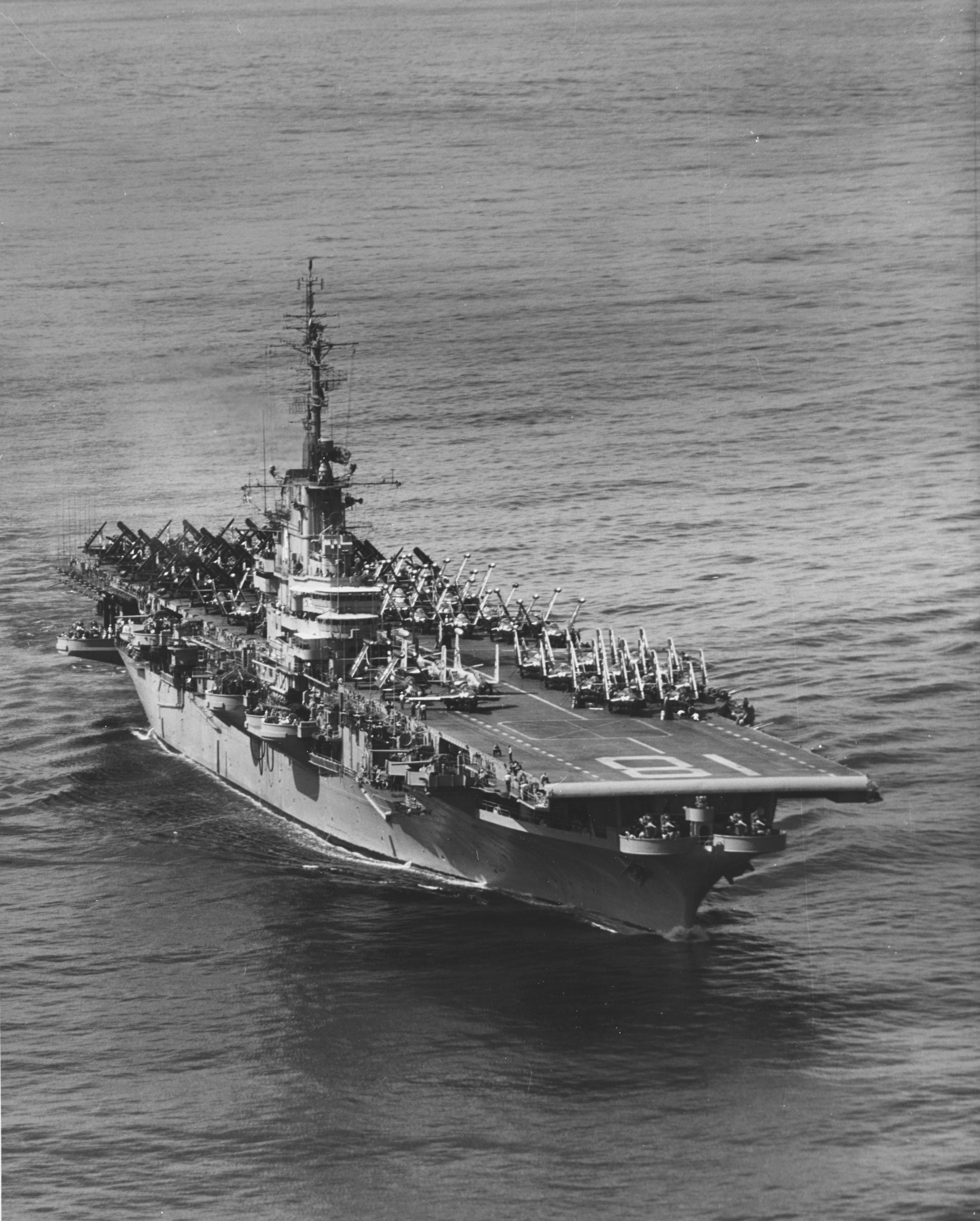 The U.S. Navy aircraft carrier USS Wasp (CVA-18) at sea in the Far East on 5 January 1955, at the time of the Tachen Islands evacuation. Wasp, with assigned Air Task Group 1 (ATG-1), was deployed to the Western Pacific from 1 September 1954 to 11 April 1955.